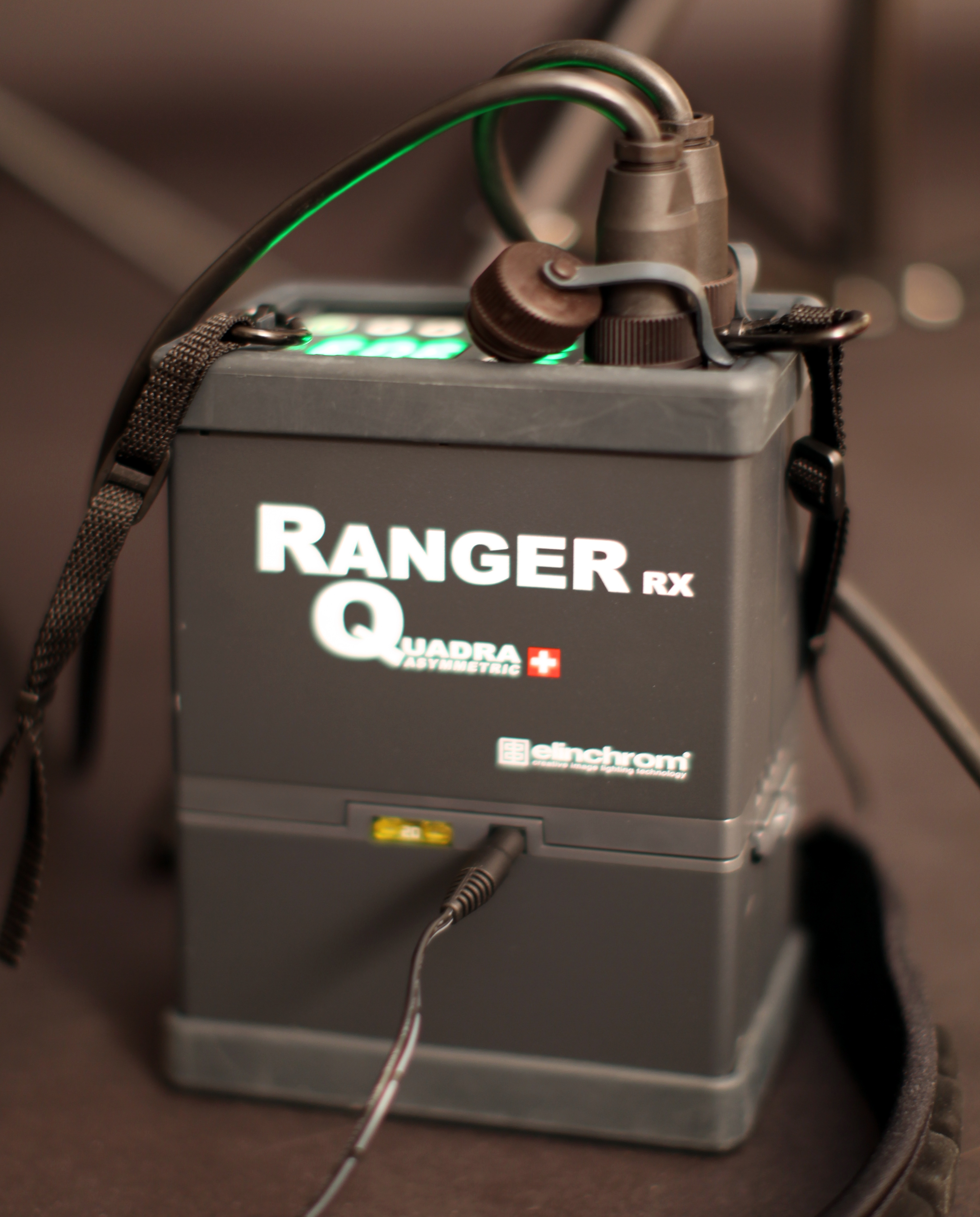 Elinchrom Ranger RX Quadra